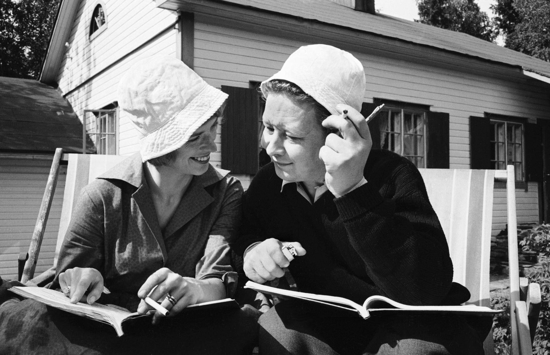 Photograph of the Finnish actors Birgitta Ulfsson and Lasse Pöysti examining manuscripts.